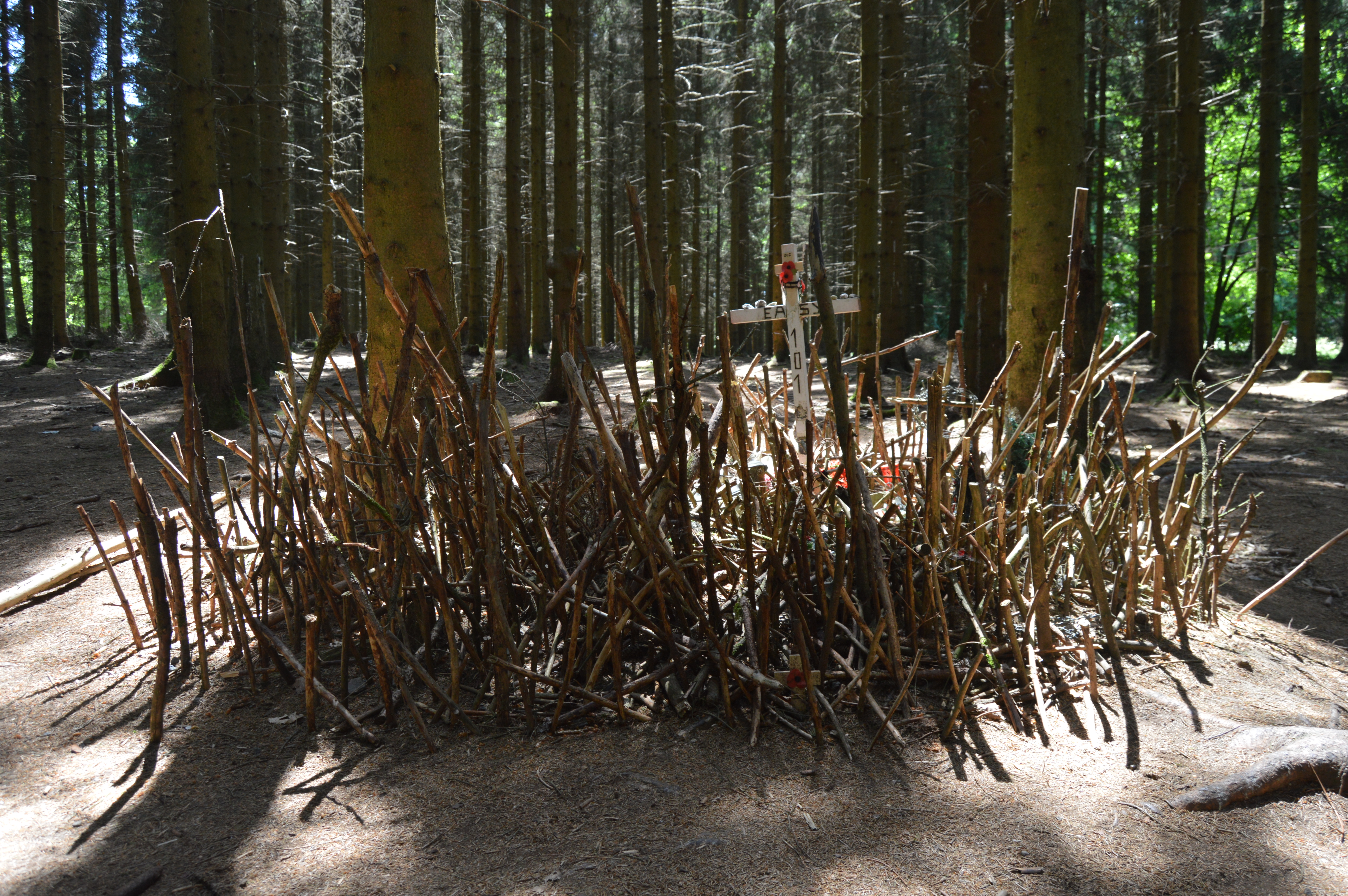 Foxholes in the Jacques Wood at Foy, Bastogne, Belgium. An informal monument. Theses holes were used by the Easy Company (101st Airbones Division) in December 1944 and January 1945 to defend Bastogne during the Battle of the Bulge. The place is evocated during episode 7 The Breaking Point of the TV minisery Band of Brothers